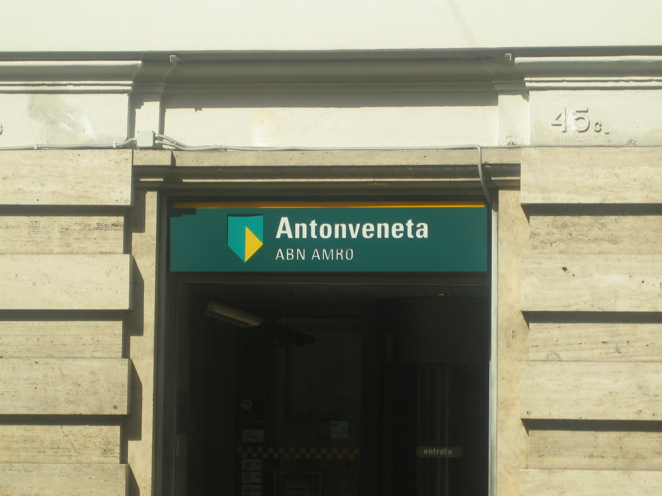 Antonventa, the Italian version of ABN Amro. The bank on the picture is in Rome.